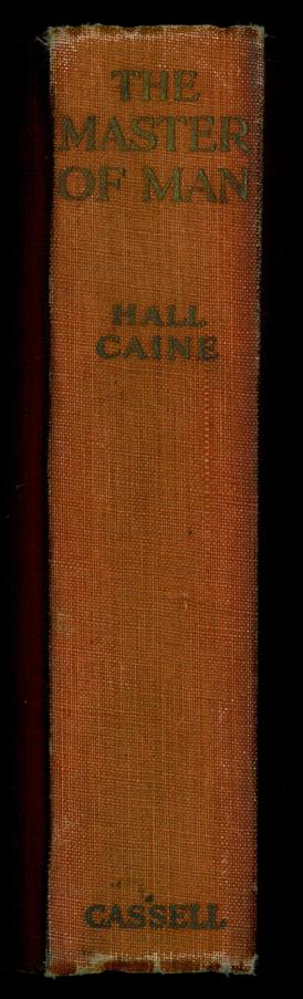 The spine of Hall Caine's 1924 Cassell reprint of 'The Master of Man'